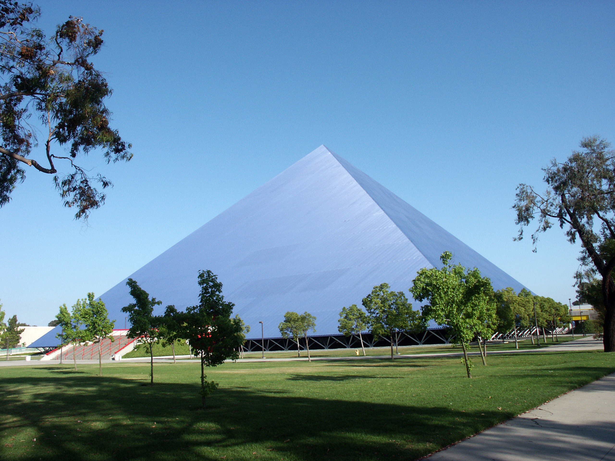 The Walter Pyramid is a collegiate athletic facility located at Long Beach State University in Long Beach, California. It officially opened on November 30, 1994, and cost approximately $22 million to construct. It rises 18 stories high and measures 345 feet along each side of the base.